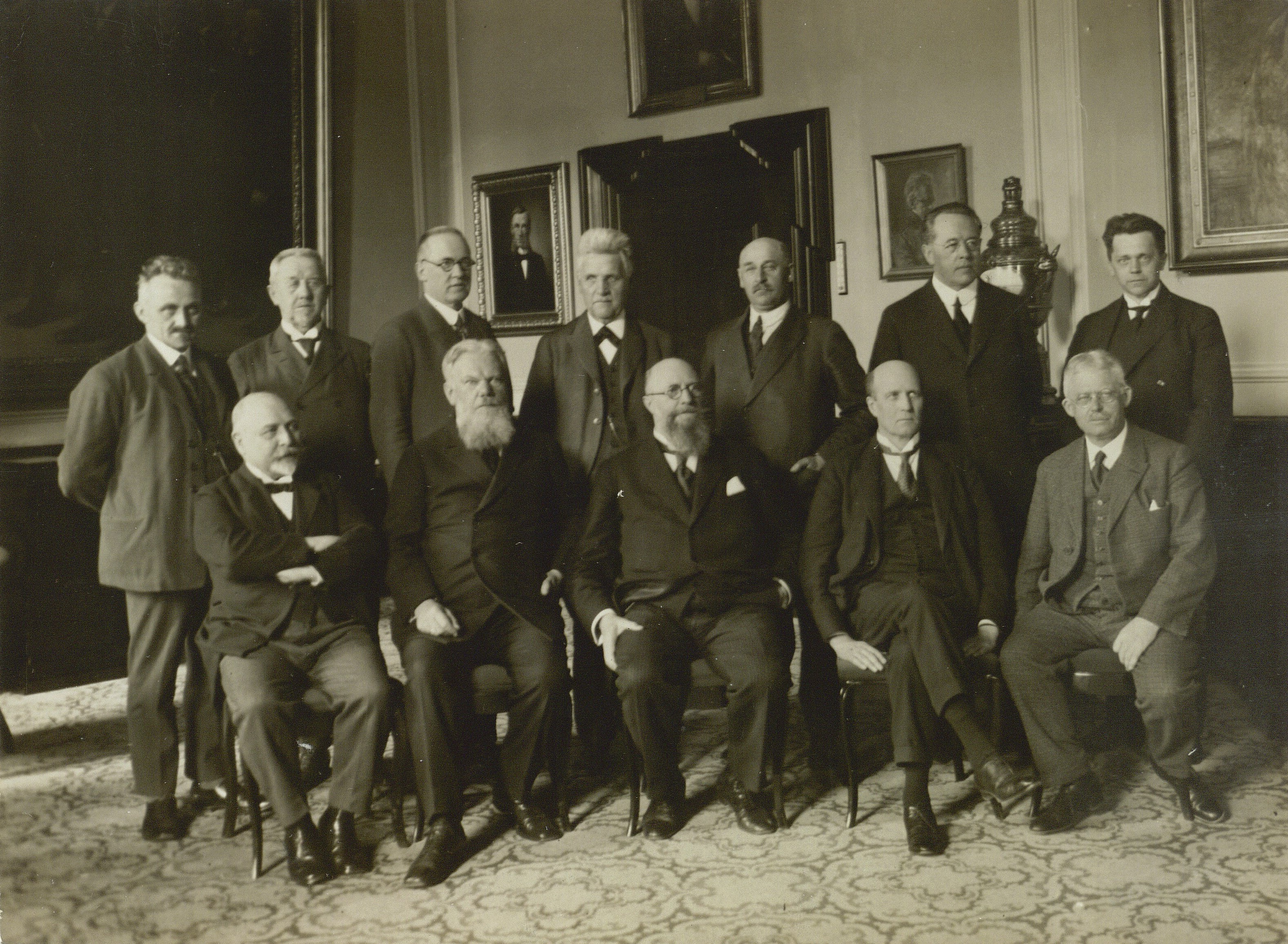 The original members of the Second Stauning cabinet: Zahle, C. Th. (1866-1946) Borgbjerg, F. J. (1866-1936) Stauning, Th. (1873-1942) Munch, P. (1870-1948) Minister of Foreign Affairs Bramsnæs, C. V. (1879-1965) Bording, Kristen (1876-1967) Minister for Agriculture Dahl, Peter (1869-1936) Minister for Ecclesiastical Affairs Steincke, K. K. (1880-1963) Rasmussen, Laurits (1862-1941) Minister of Defence Hauge, C. N. (1870-1940) Friis-Skotte, J. (1874-1946) Dahlgaard, Bertel (1887-1972)